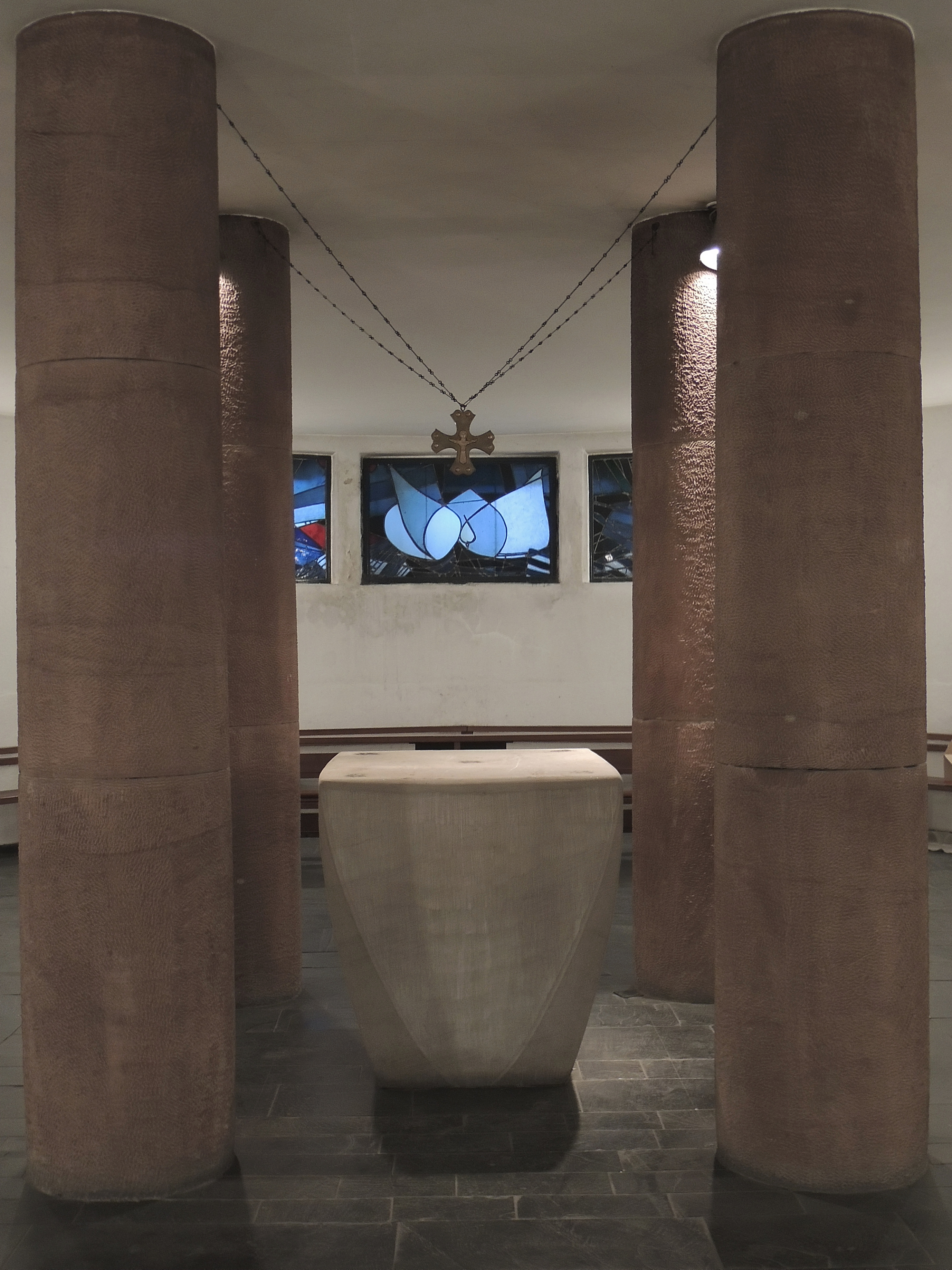 Crypt of the church St. Michael in Frankfurt am Main-Nordend